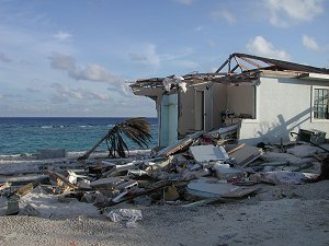 Cayman Islands home destroyed by Hurricane Ivan.